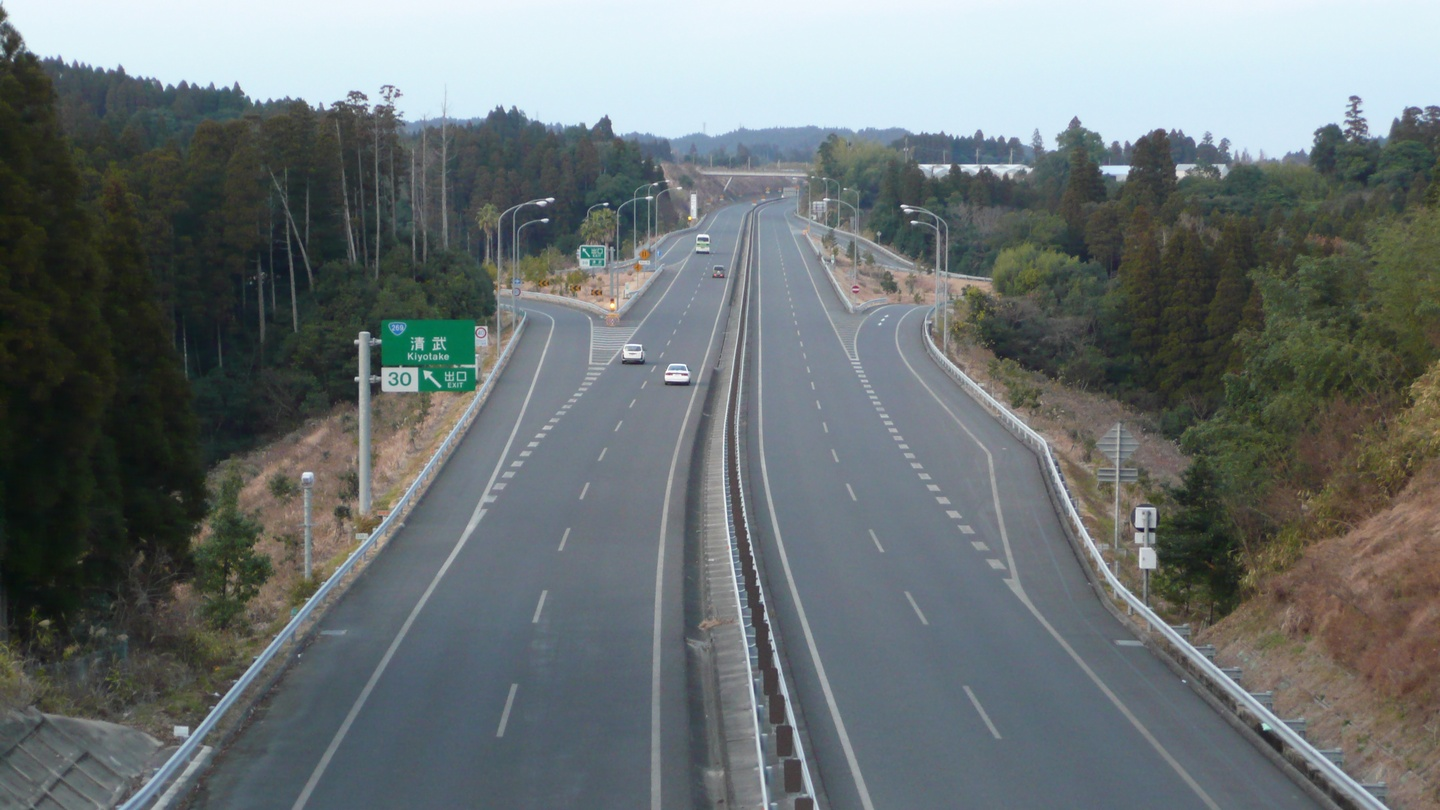 HigashiKyūShū Expressway (Kiyotake Town, Miyazaki City, Japan)